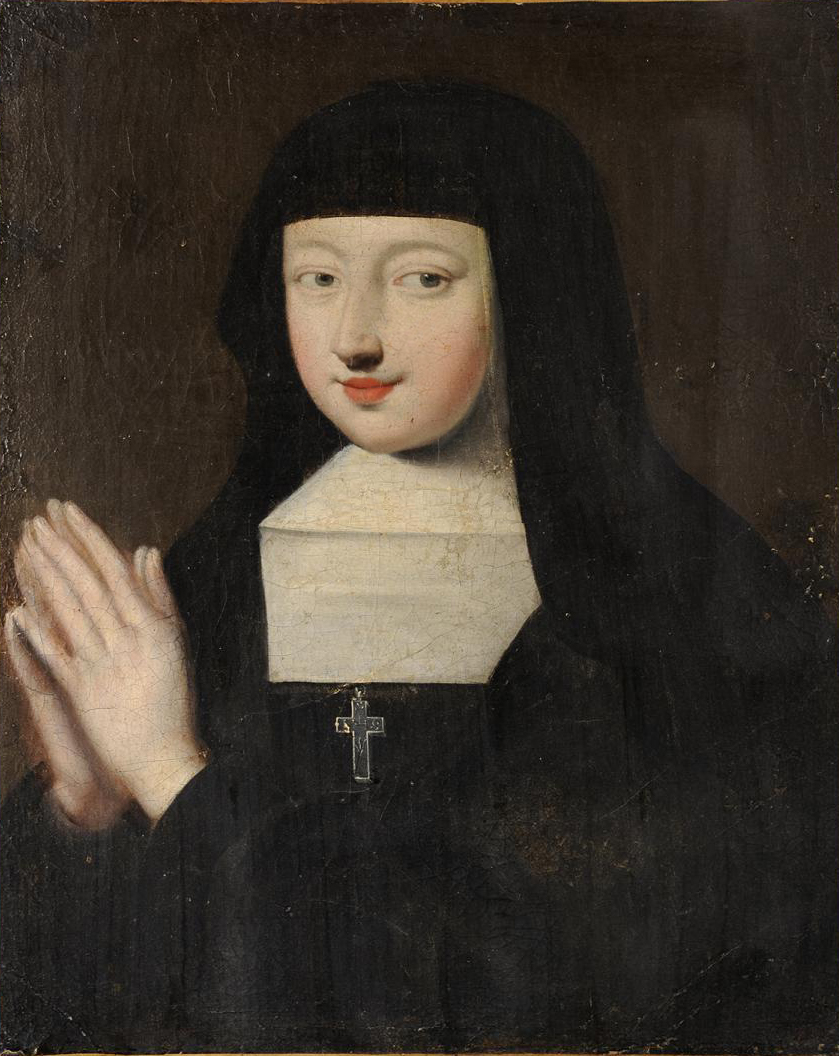 Soeur Louise de La Fayette (1618-1665)